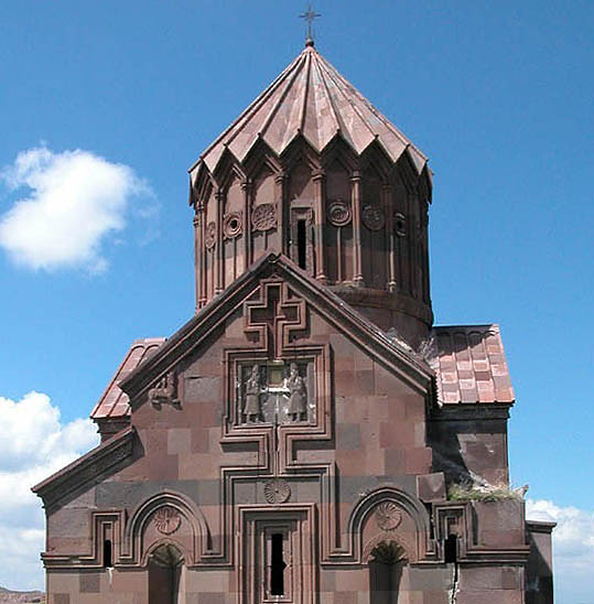 St. Mother-of-God Cathedral, Haritchavank Monastery 63/18.3.5